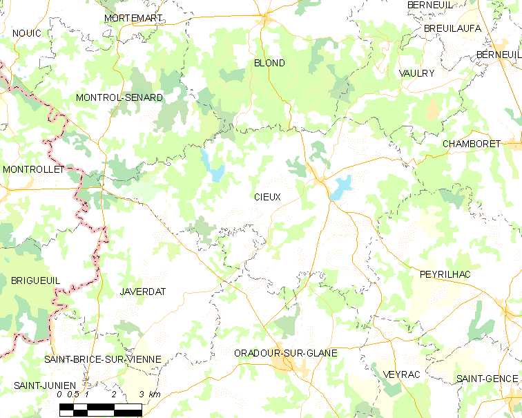 Map of French municipality Cieux